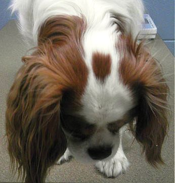 File:Cavalier King Charles Spaniel Blenheim Spot.jpg - cropped